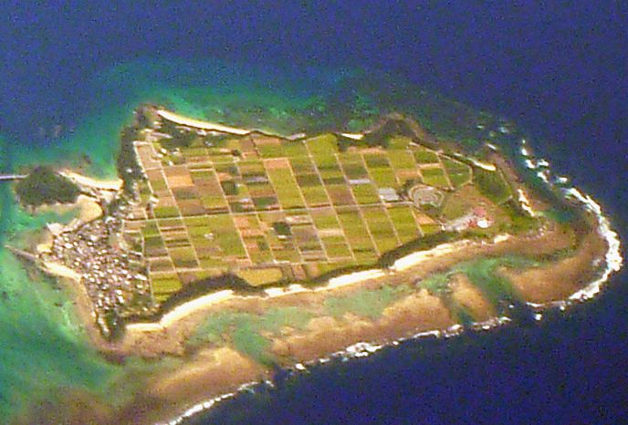 Ikei Island, Uruma, Okinawa.